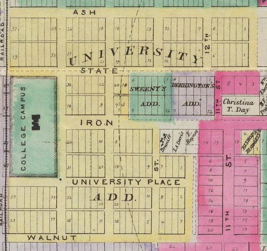 This is a cropped portion of a map titled "Plat of The City of Salina, Saline Co. Kansas"